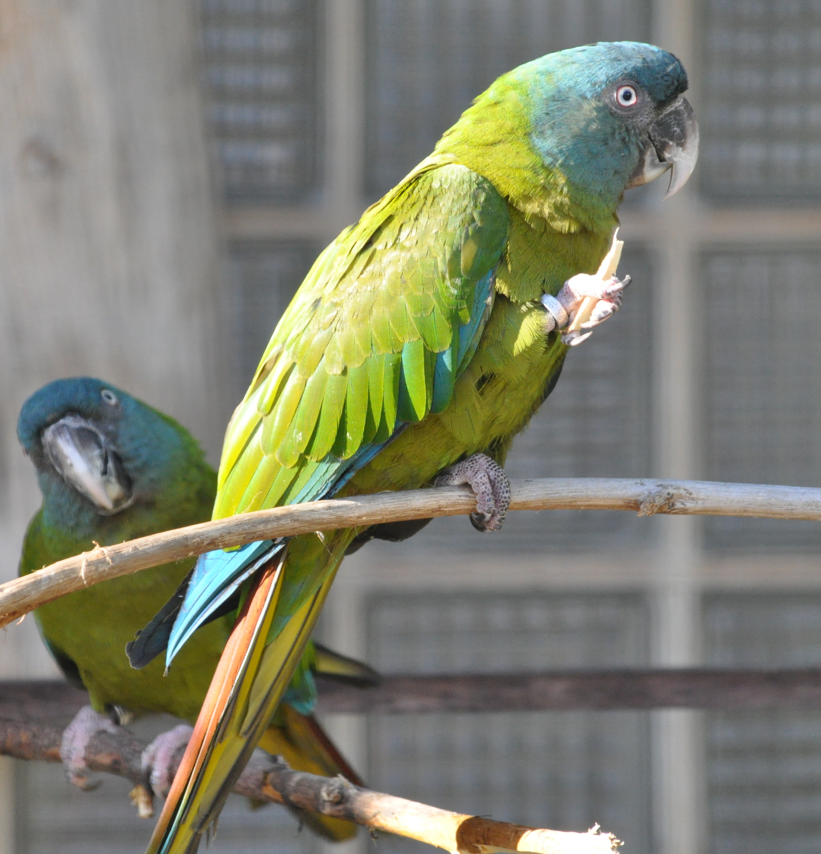 Blue-headed Macaw in the Walsrode Bird Park, Germany.